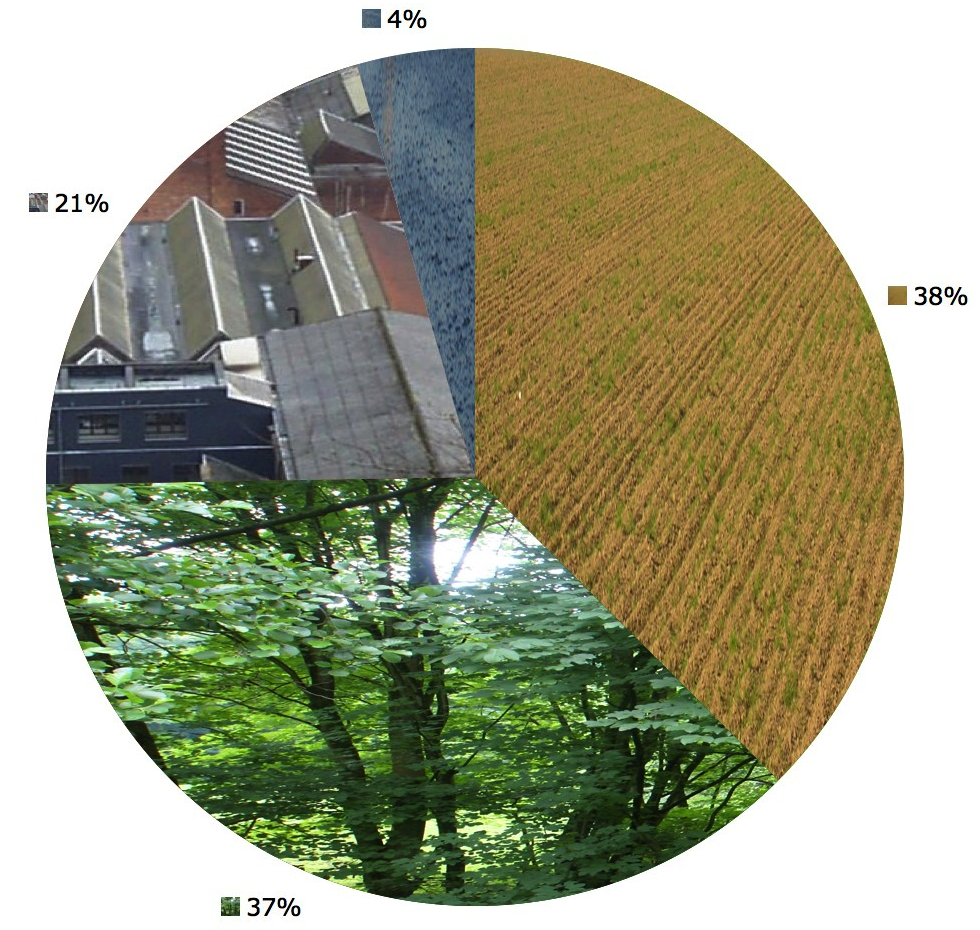 Trooz (Belgium): Land use in 2005: 38 % agriculture, 37 % forest; 21 % construction, 4% others